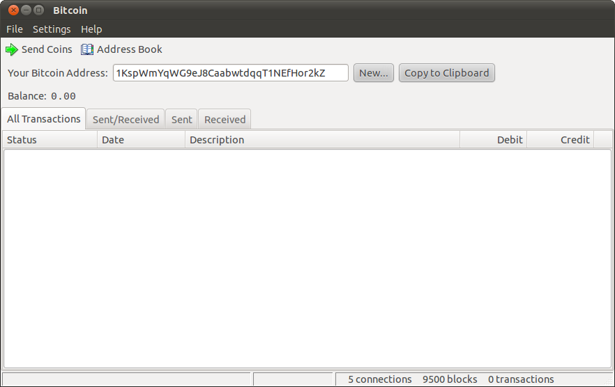 Bitcoin 0.3.23, on Ubuntu 11.04